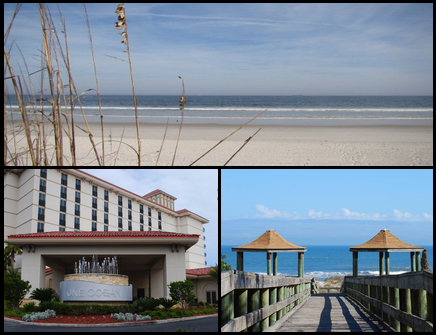 Atlantic Beach